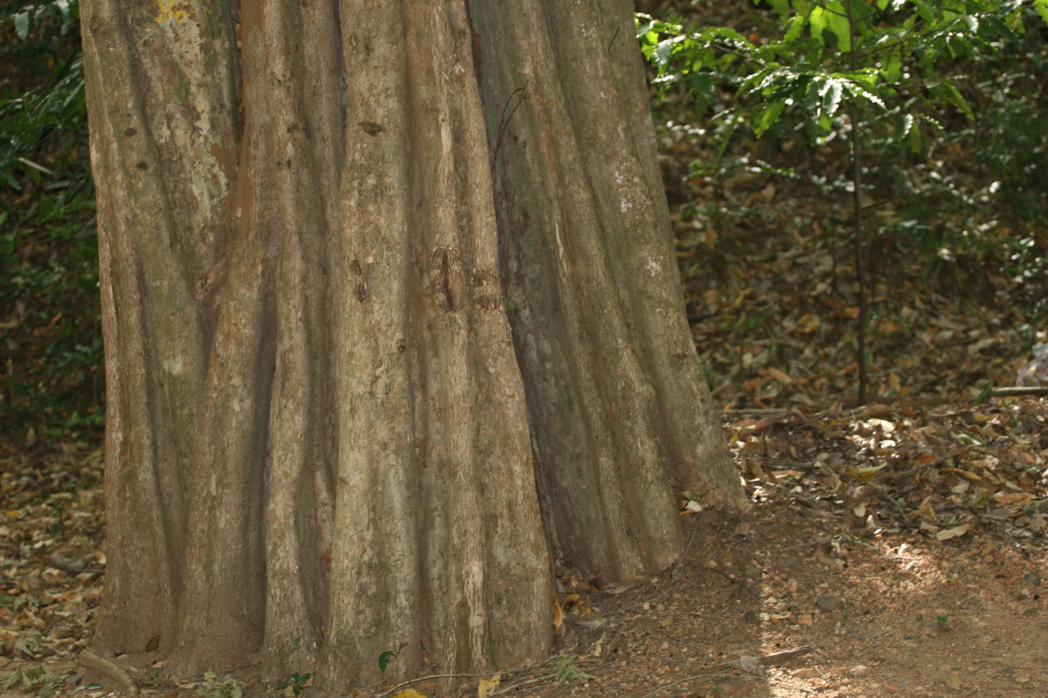 Hydnocarpus venenata stem